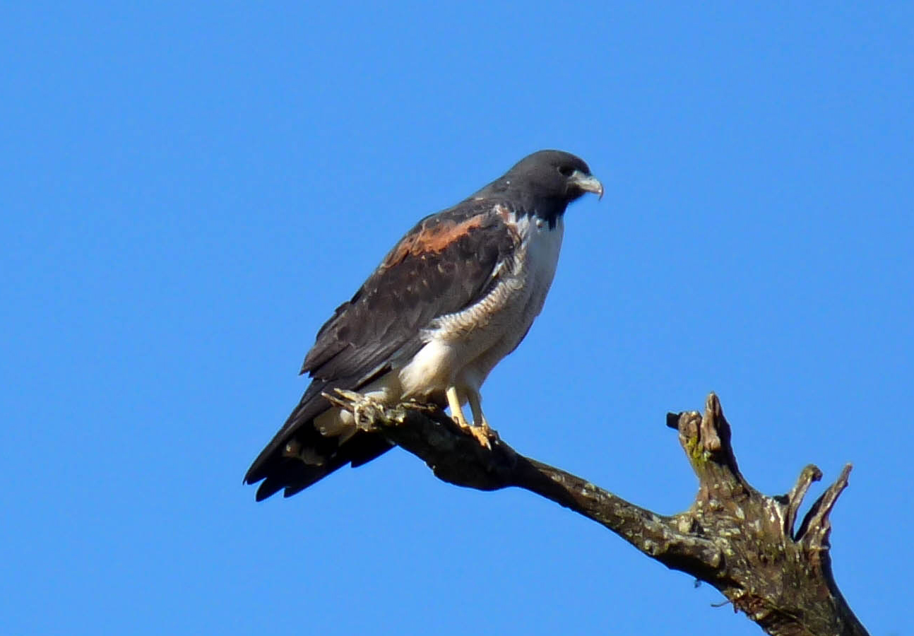 White-tailed Hawk Geranoaetus albicaudatus, São Luiz do Paraitinga, São Paulo, Brazil